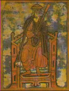 Alfonso III of Asturias